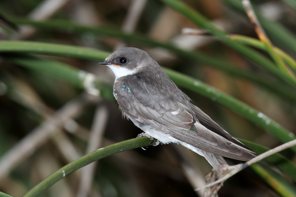 This juvenile has just one or two irridescent blue feathers growing on its wing.